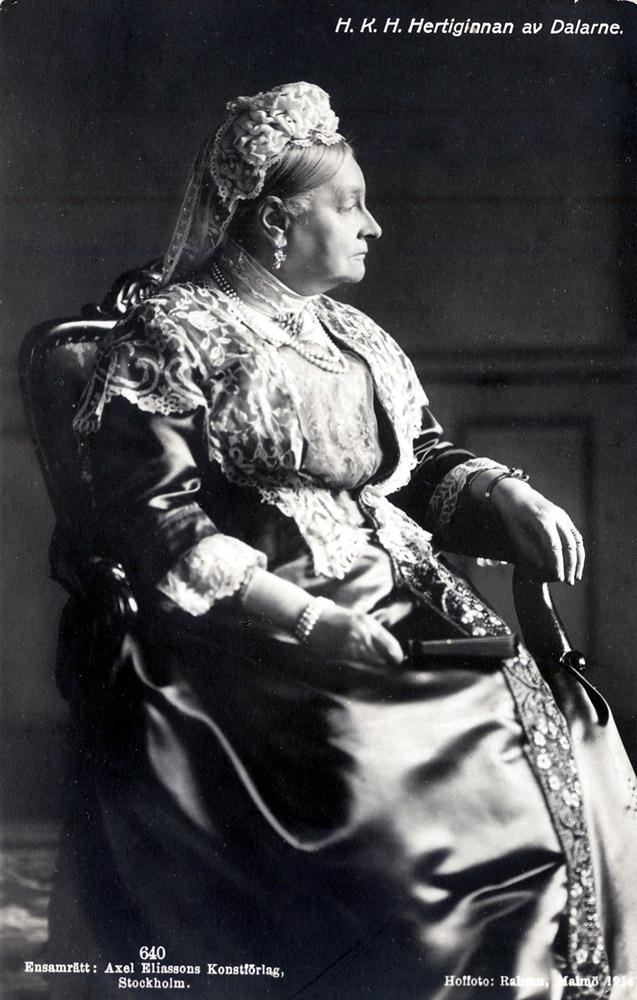 Princess Teresia of Sweden and Norway, Dowager Duchess of Dalecarlia